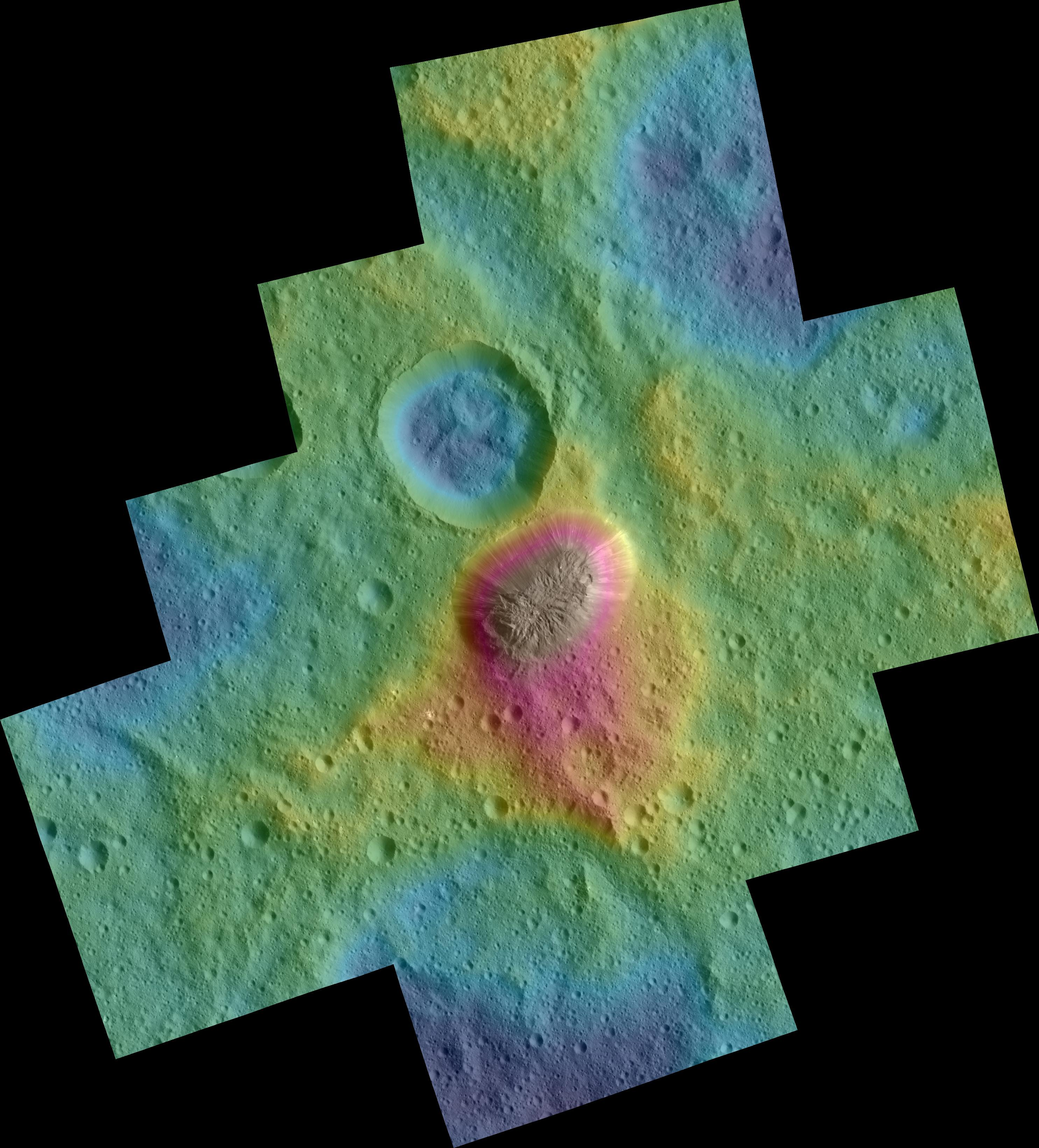 PIA20399: Dawn Color Topography of Ahuna Mons on Ceres These color topographic views show variations in surface height around Ahuna Mons, a mysterious mountain on Ceres. The views are colorized versions of PIA20348 and PIA20349. They represent an update to the view in PIA19976, which showed the mountain using data from an earlier, higher orbit. Both views were made using images taken by NASA's Dawn spacecraft during its low-altitude mapping orbit, at a distance of about 240 miles (385 kilometers) from the surface. The resolution of the component images is about 120 feet (35 meters) per pixel. Elevations span a range of about 5.5 miles (9 kilometers) from the lowest places in the region to the highest terrains. Blue represents the lowest elevation, and brown is the highest. The streaks running down the side of the mountain, which appear white in the grayscale view, are especially bright parts of the surface (the brightness does not relate to elevation). The elevations are from a shape model generated using images taken at varying sun and viewing angles during Dawn's lower-resolution, high-altitude mapping orbit (HAMO) phase. The side perspective view was generated by draping the image mosaics over the shape model. Dawn's mission is managed by JPL for NASA's Science Mission Directorate in Washington. Dawn is a project of the directorate's Discovery Program, managed by NASA's Marshall Space Flight Center in Huntsville, Alabama. UCLA is responsible for overall Dawn mission science. Orbital ATK, Inc., in Dulles, Virginia, designed and built the spacecraft. The German Aerospace Center, the Max Planck Institute for Solar System Research, the Italian Space Agency and the Italian National Astrophysical Institute are international partners on the mission team. For a complete list of acknowledgments, For more information about the Dawn mission, visit